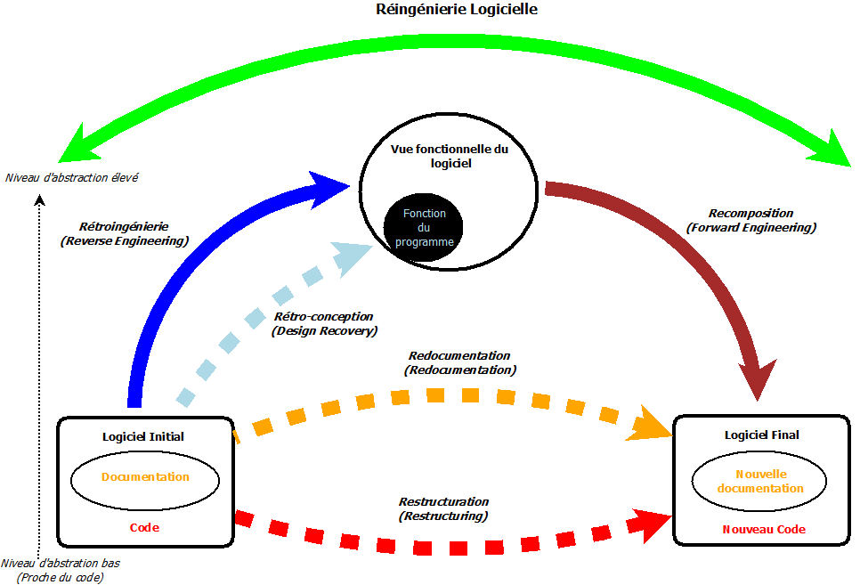 Used main process in software reengineering.